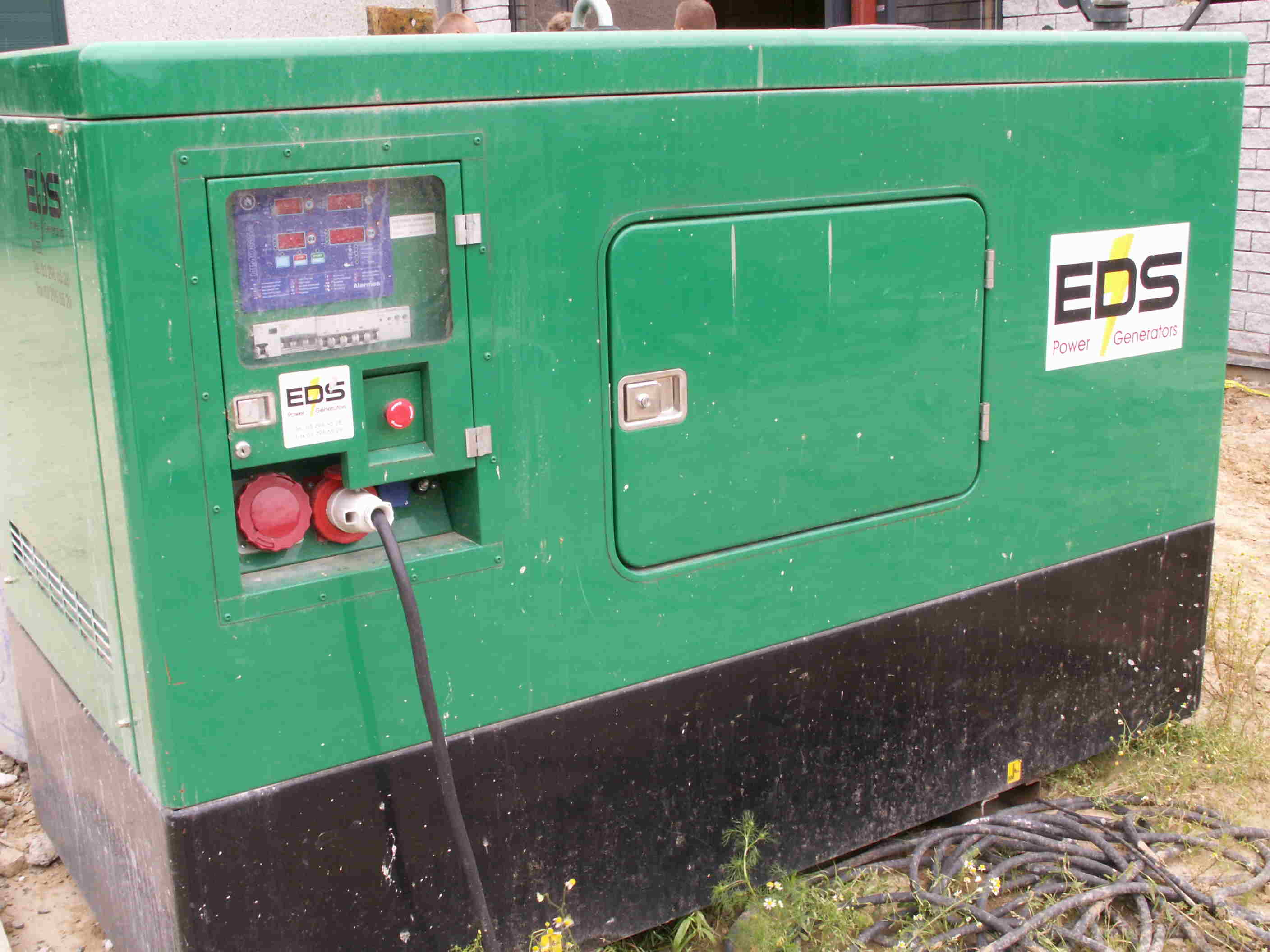 An electrical generator powered by fossil fuels. This kind of generator is nowadays best replaced by a model working on compressed air or other zero-emission power source (eg hydrogen, ...)